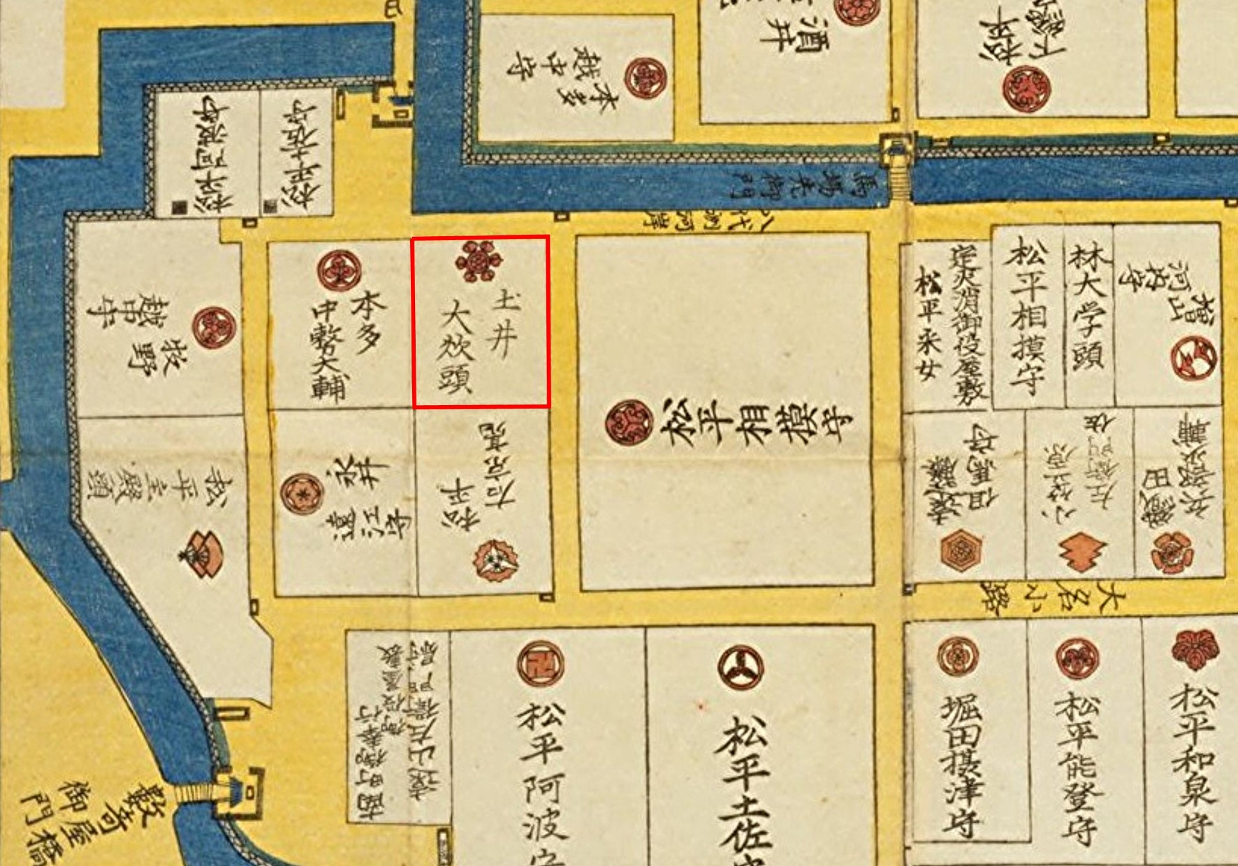 Residence of a Doi-Family at Edo